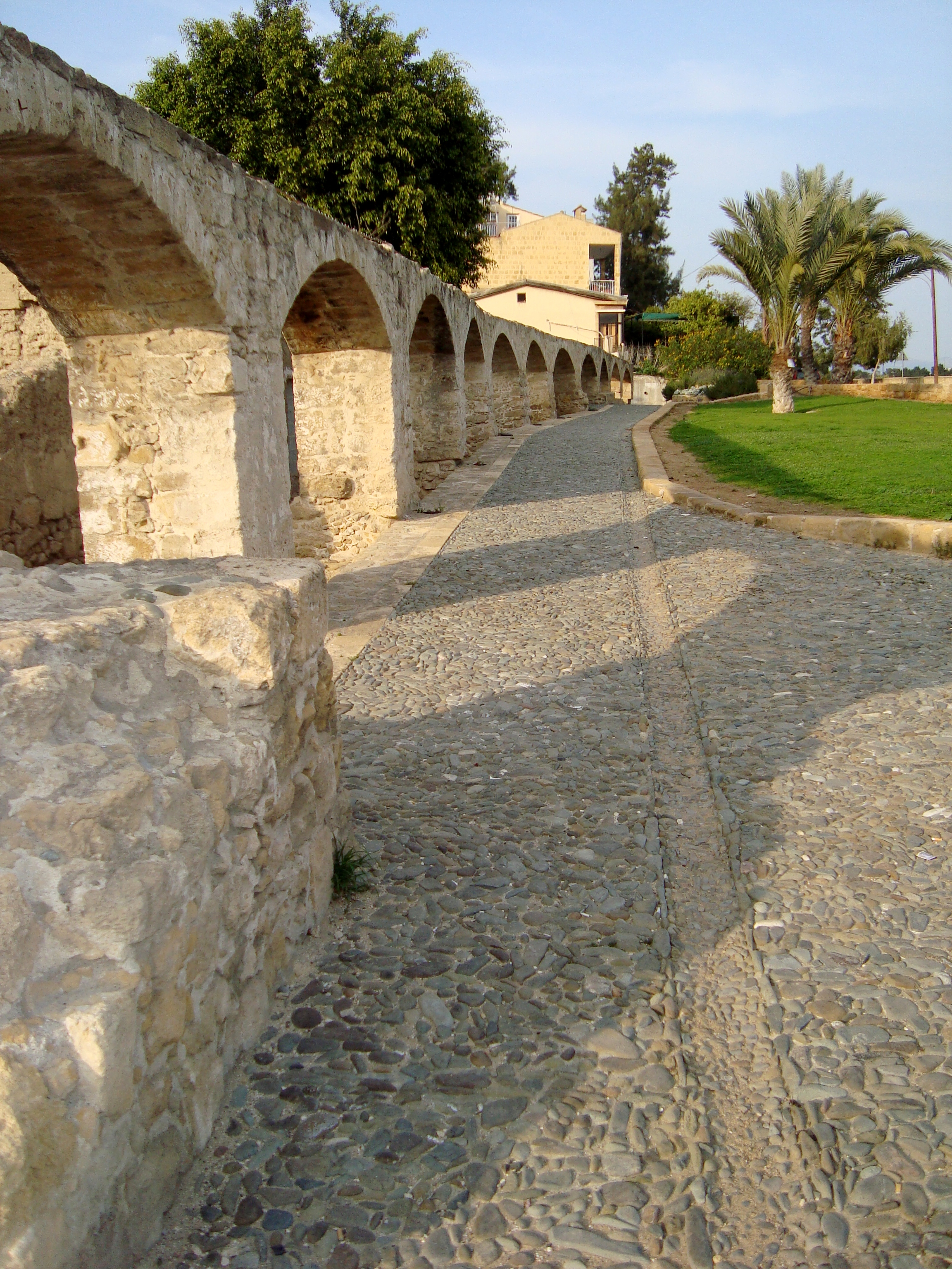 Old Nicosia Roman Aqueduct in Cyprus.